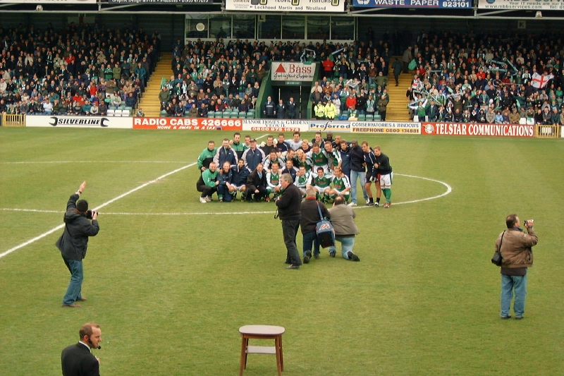 Yeovil Town FC: View across the pitch 19 April 2003 - The town are champions of the Nationwide Conference. Here they pose for the cameras and a packed house!